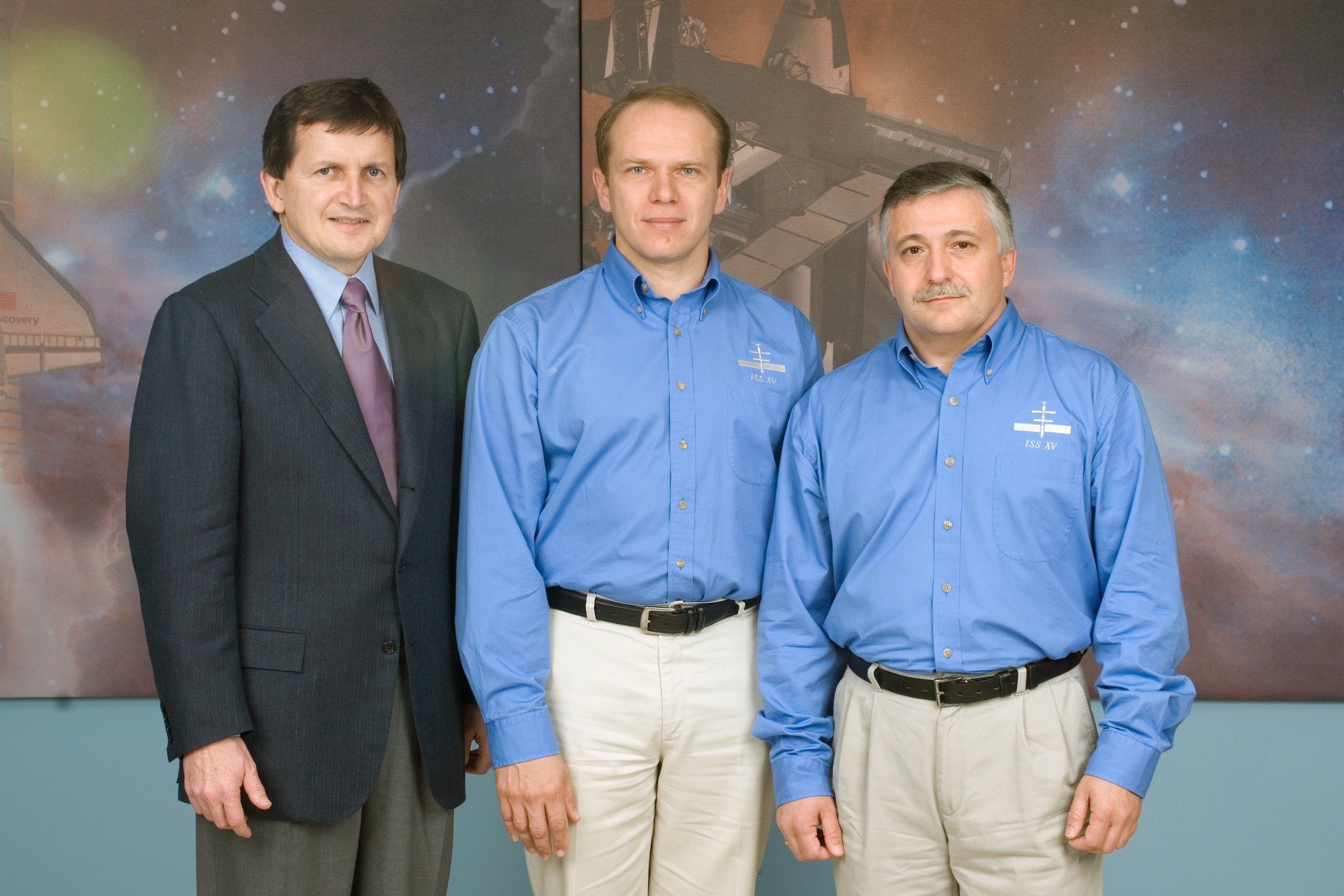 Expedition 15 crewmembers posed for photos at the conclusion of a Dec. 13 press conference at the Johnson Space Center. From the left are Charles Simonyi, space flight participant; Oleg Kotov, flight engineer and Soyuz commander; and Fyodor Yurchikhin, commander. Kotov and Yurchikhin represent Russia's Federal Space Agency.